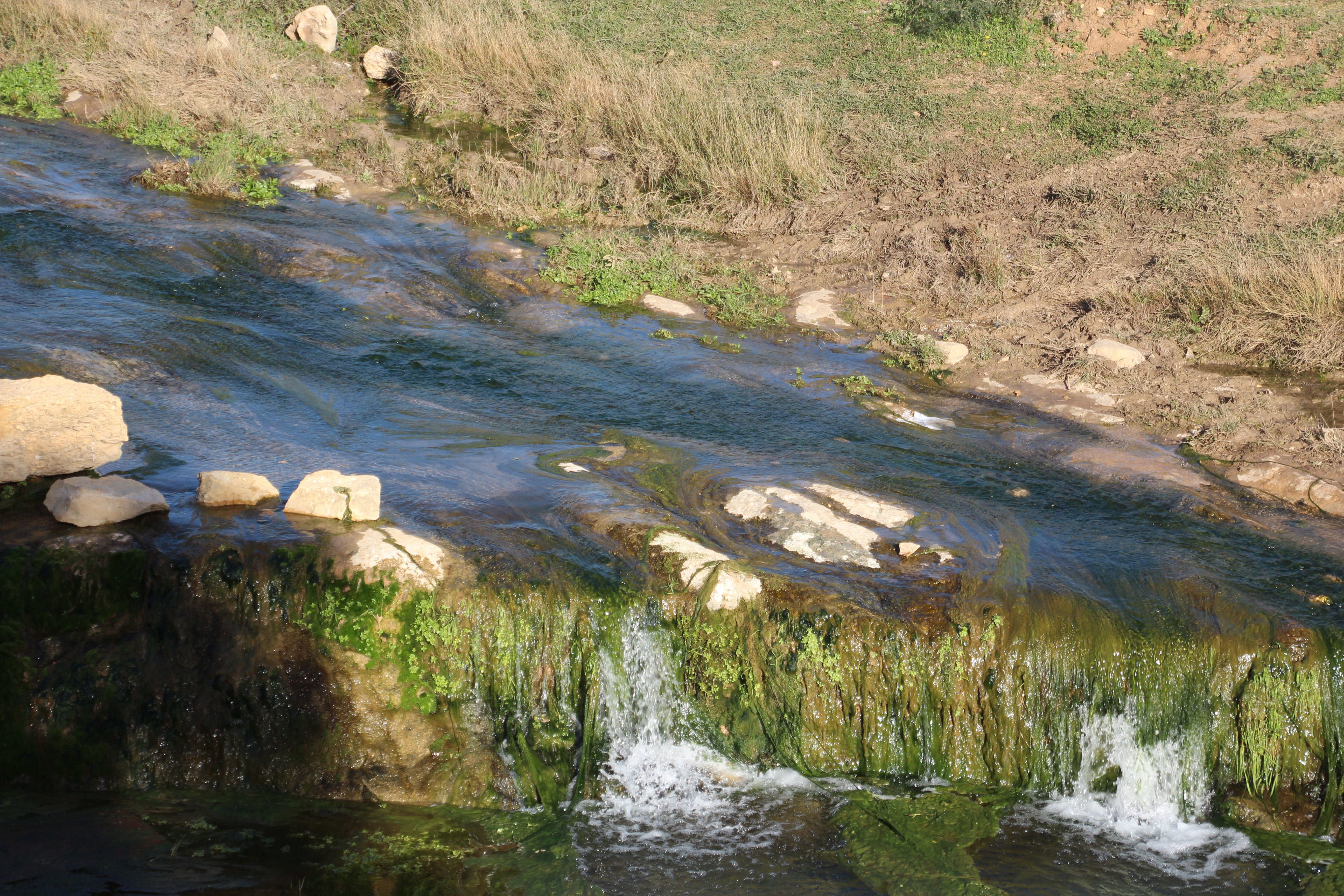 Ein Qinya Natural Spring, Ramallah Governorate, Palestine